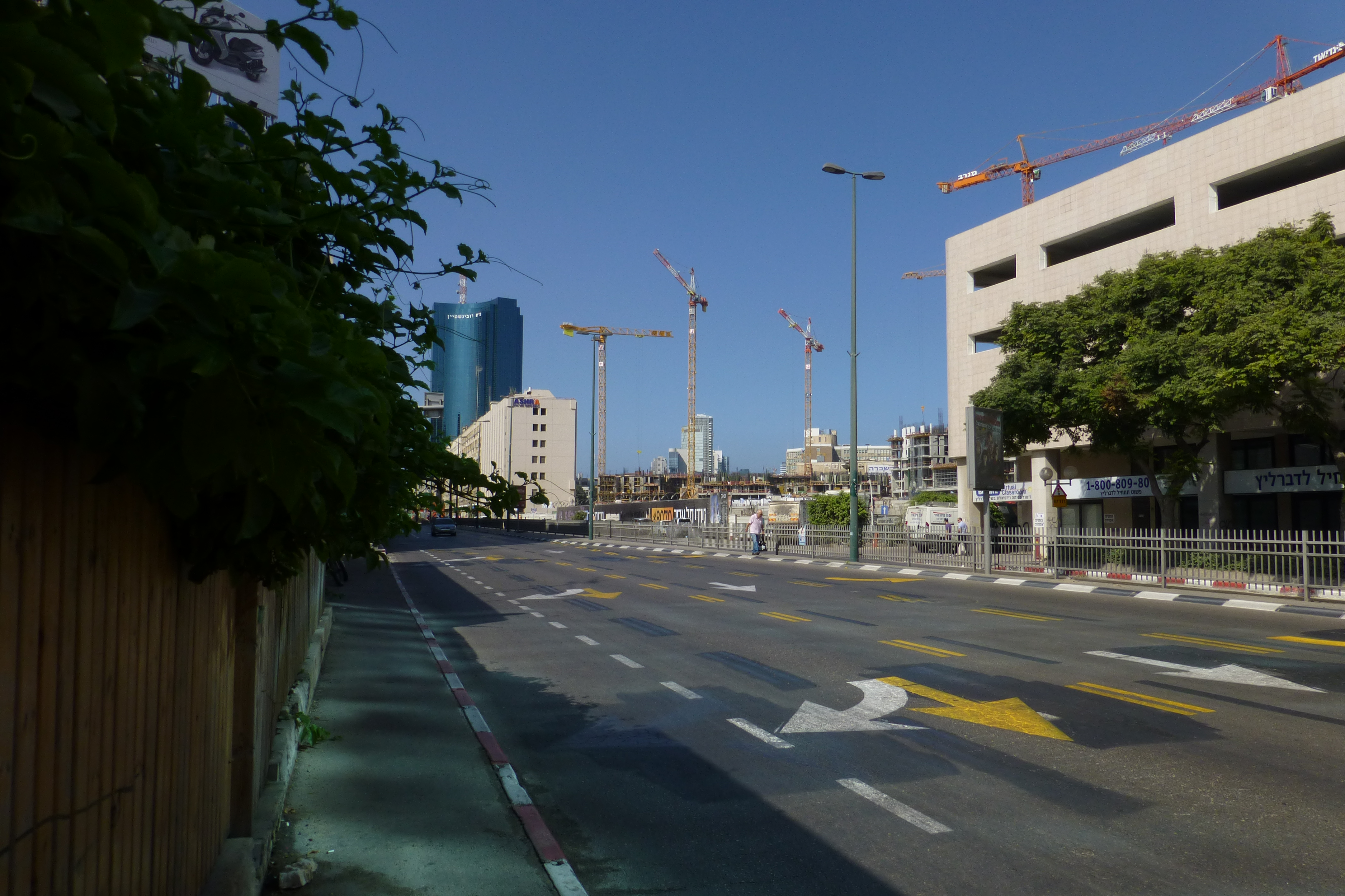 Begin Road, Tel Aviv-Yafo